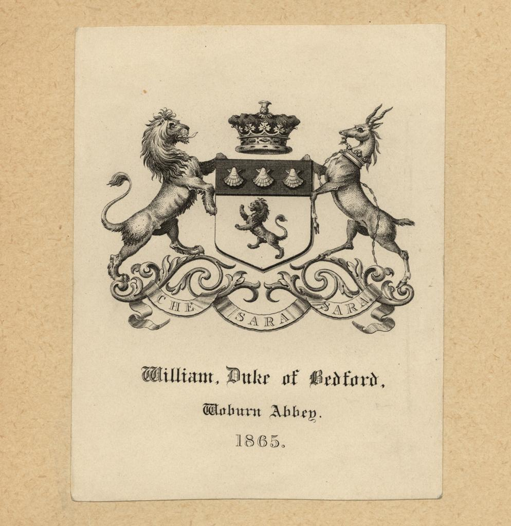 Armorial/Heraldic Bookplates. Subject: Coat of arms; Shields; Crowns; Animals. Subject - Personal Name: Bedford, William.